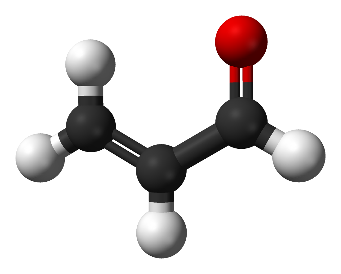 Ball-and-stick model of the acrolein molecule